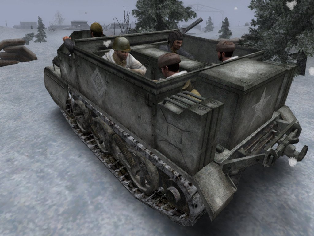 Red Orchestra Universal Carrier